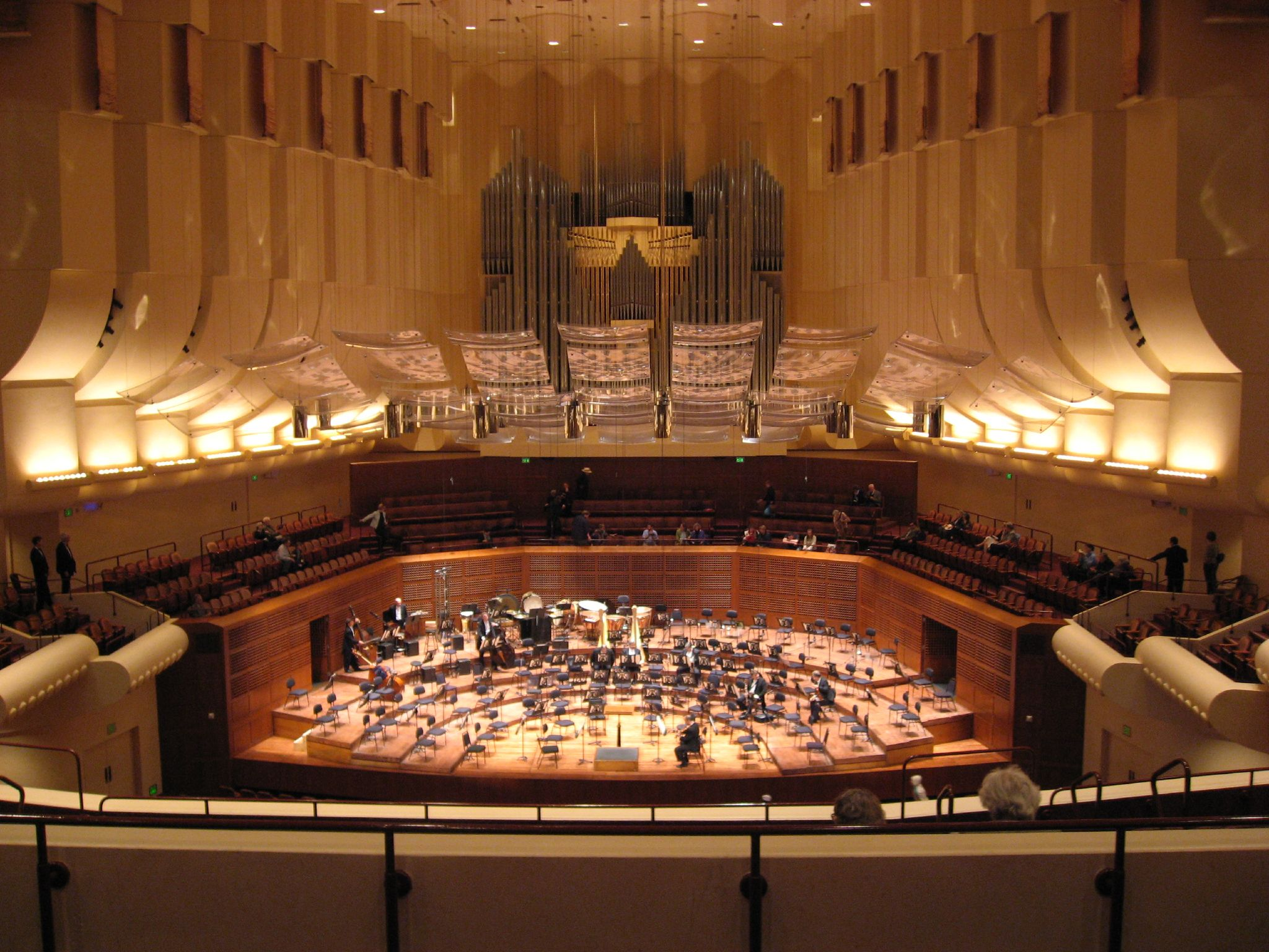 Interior of the Louise M. Davies Symphony Hall, with the San Francisco Symphony Orchestra. Location: San Francisco.